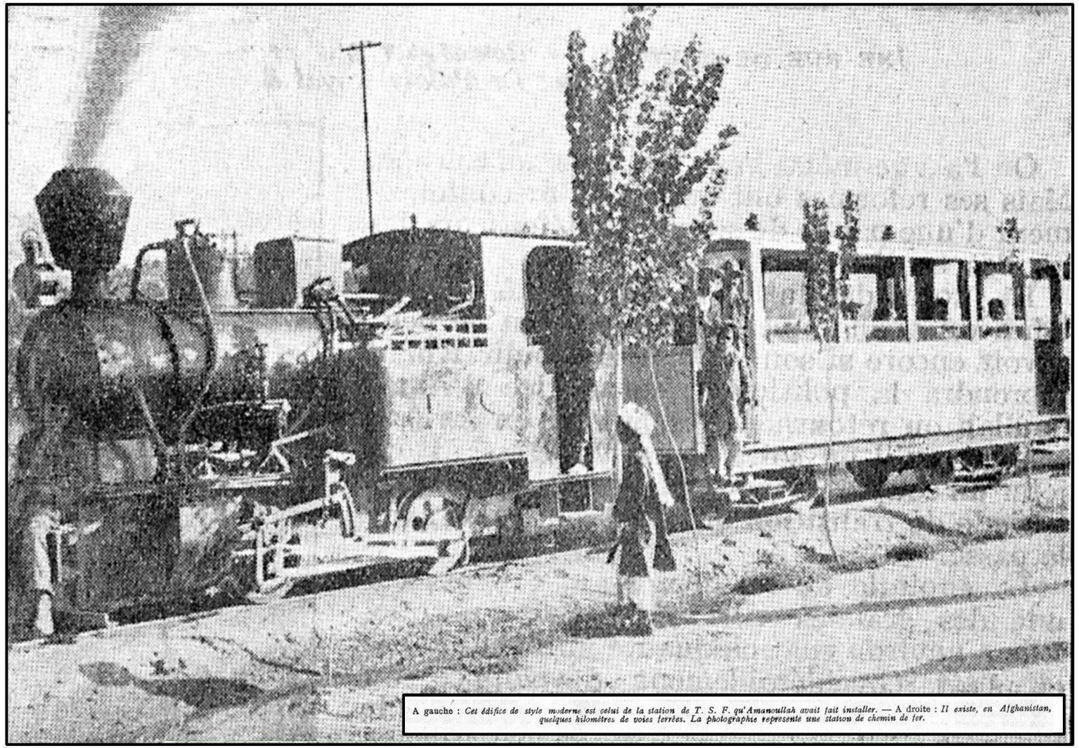 There are, in Afghanistan, a few kilometres of railway. The photograph shows a railway station